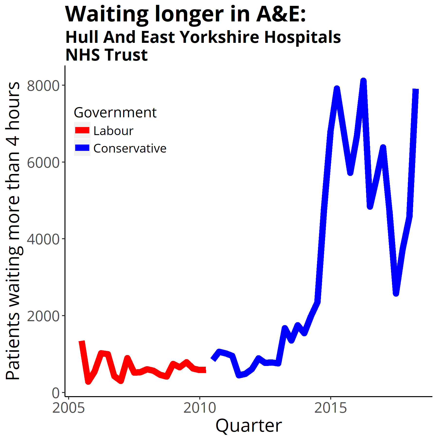 Four-hour target in the emergency department quarterly figures from NHS England Data from